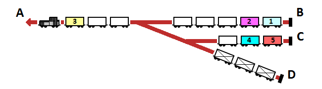 Inglenook Sidings puzzle possible setup for start.